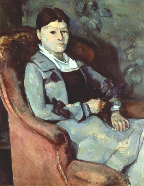 Portrait of Mme Cézanne